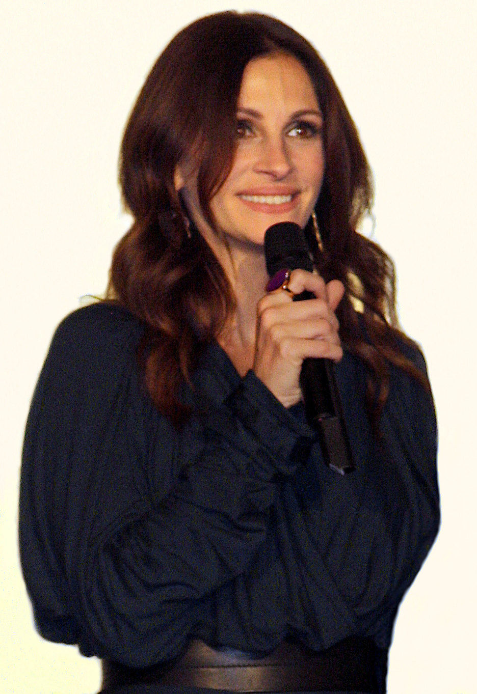 Julia Roberts in Paris 2010.